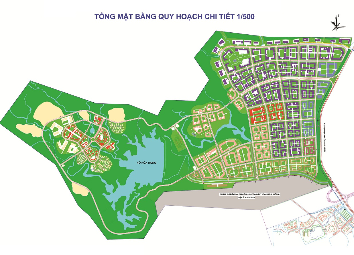 The Detailed Planning of Danang Hi-tech Park